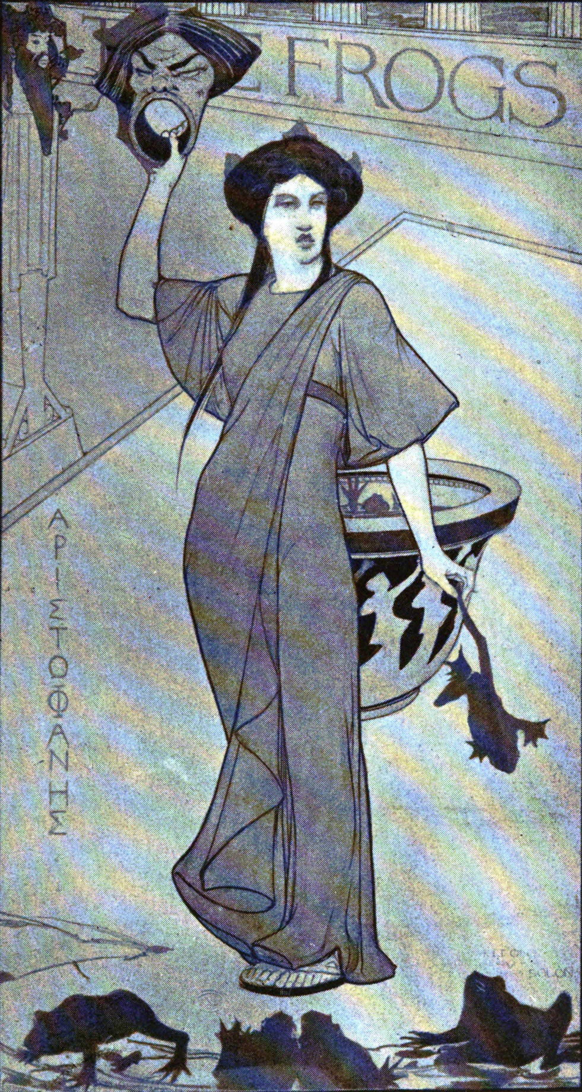 Poster by Leon Solon, motf of Frogs by Aritophane